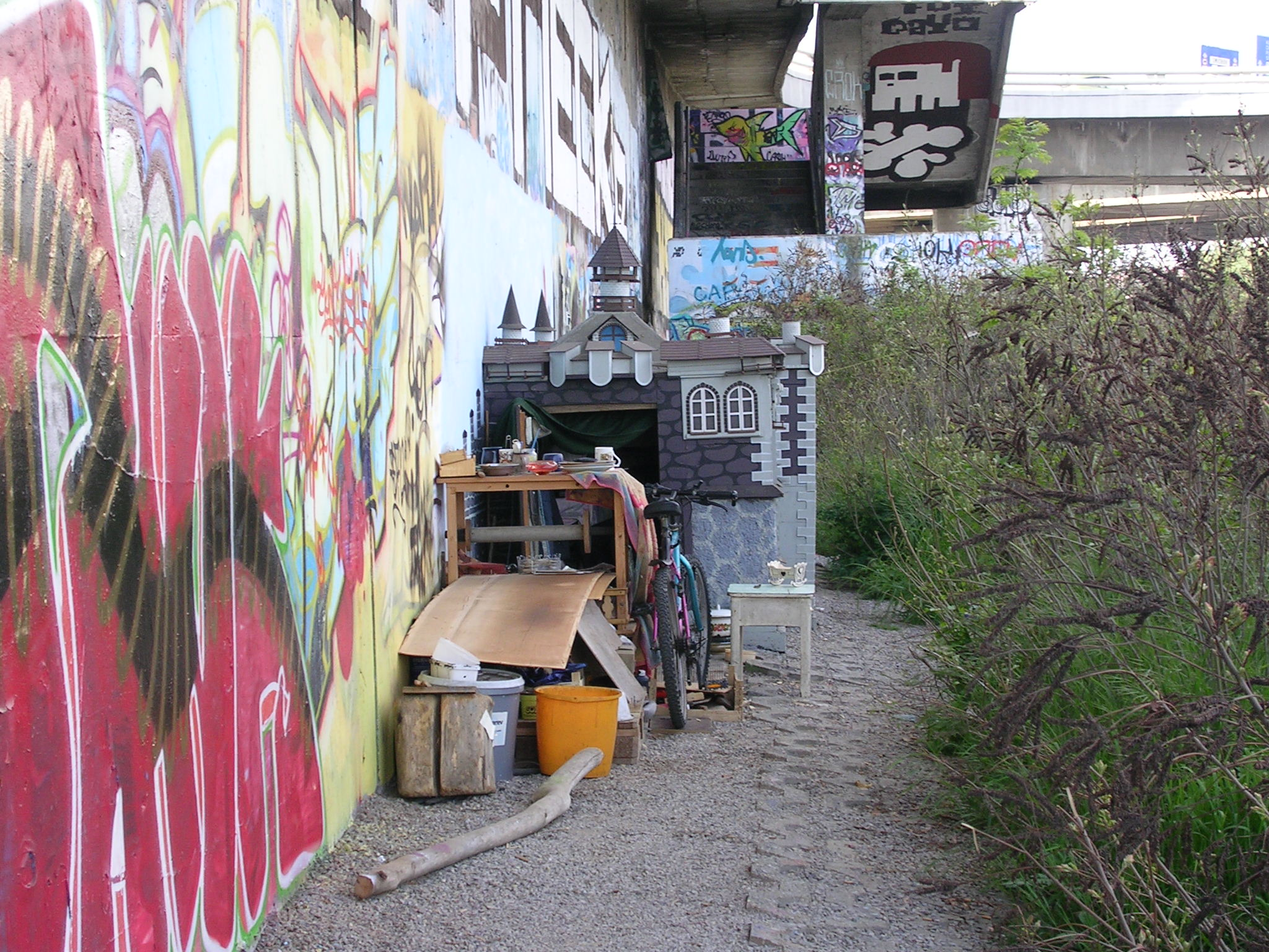 Prague-Hlubočepy, the Czech Republic.